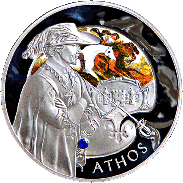 Belarus and the global community. Commemorative coins "Athos"